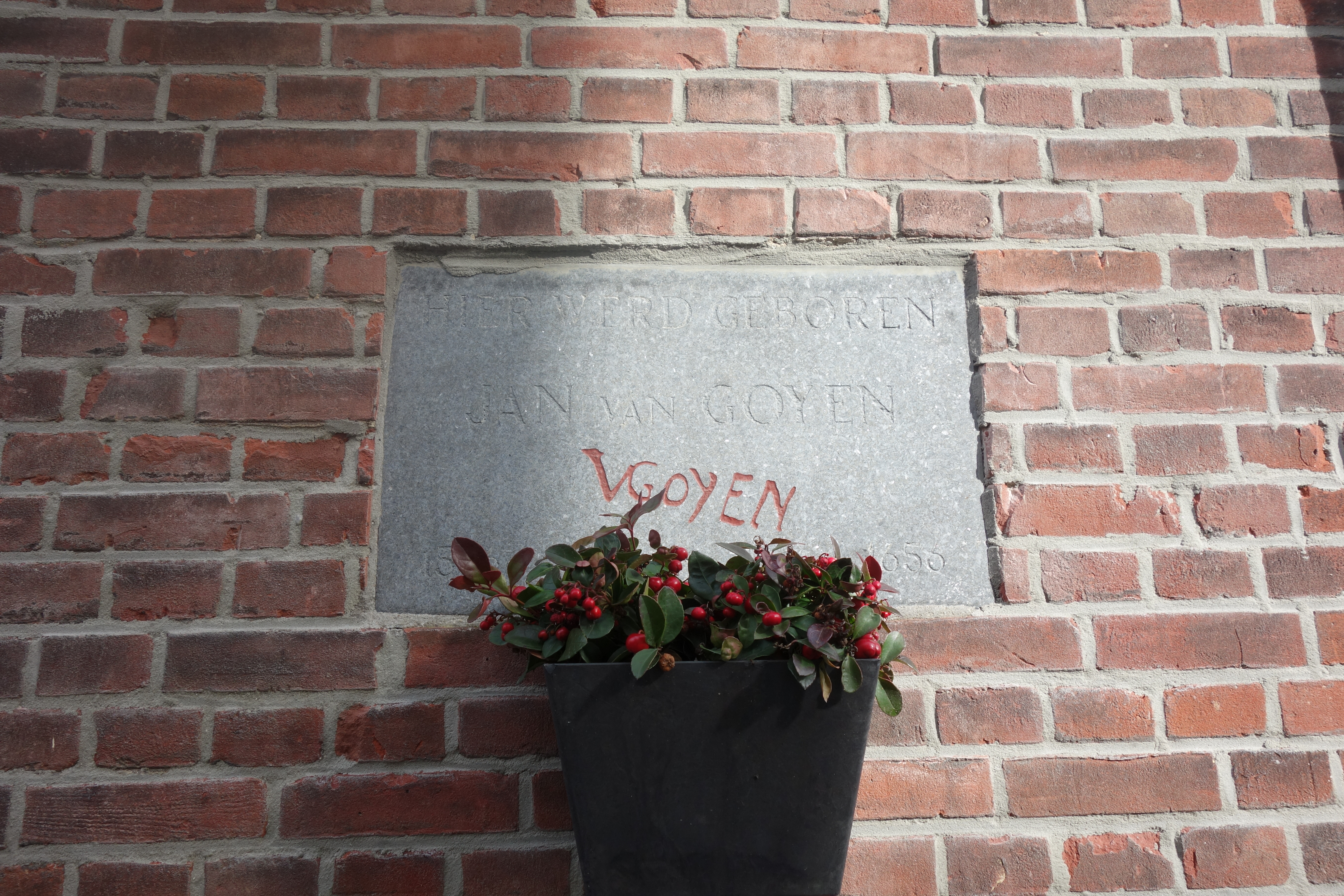 Memorial stone Jan van Goyen in Leiden (Café de Spijkerbak). Text reads: "Hier werd geboren Jan van Goyen. 1596-1656".